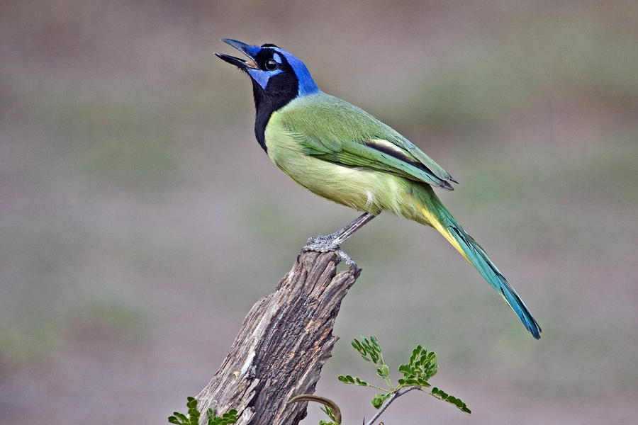 Green Jay Cyanocorax luxuosus, Ramirez Ranch, Near Roma, Texas